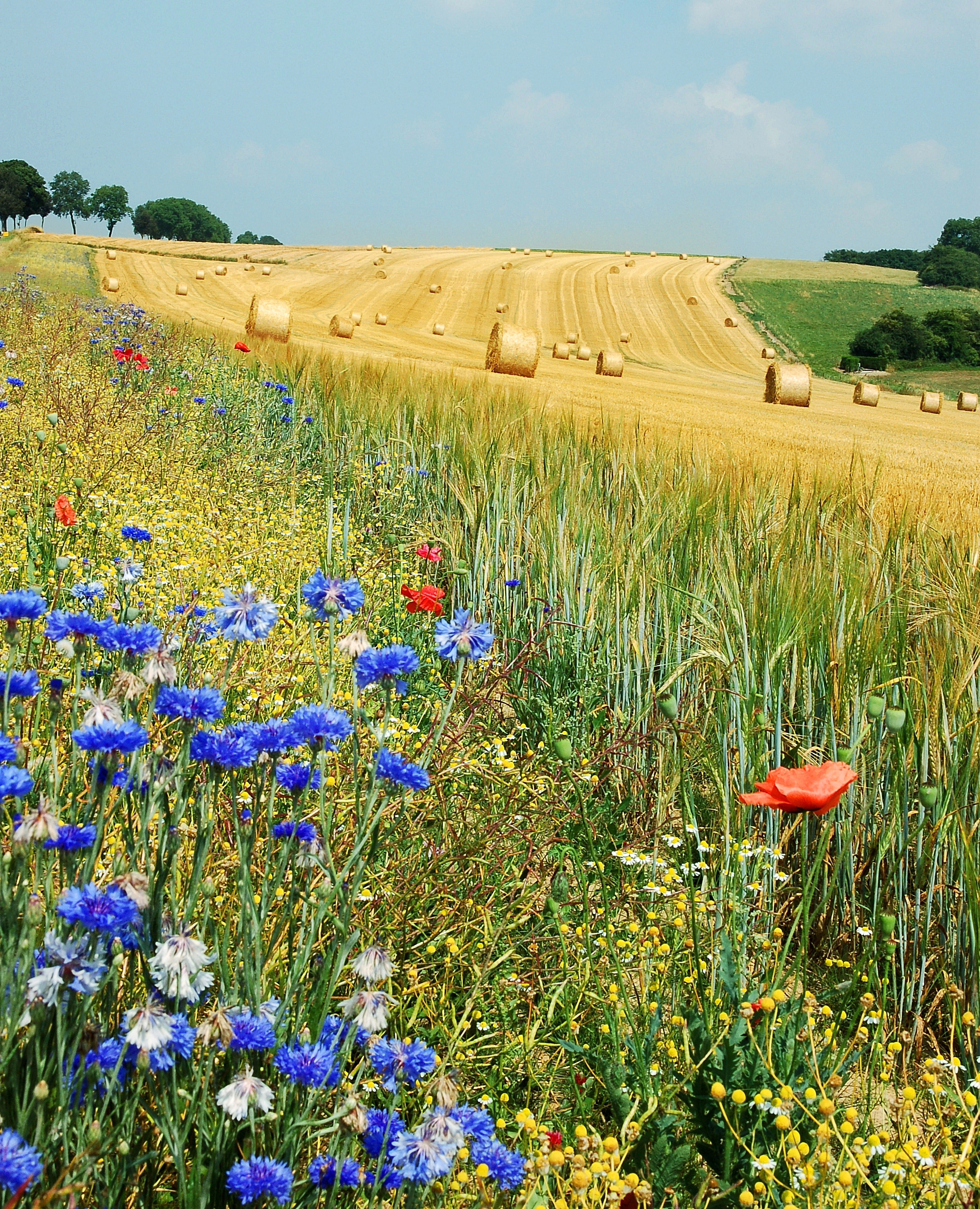 Summer field in Belgium (Hamois). The blue flower is cornflower and the red one a corn poppy.